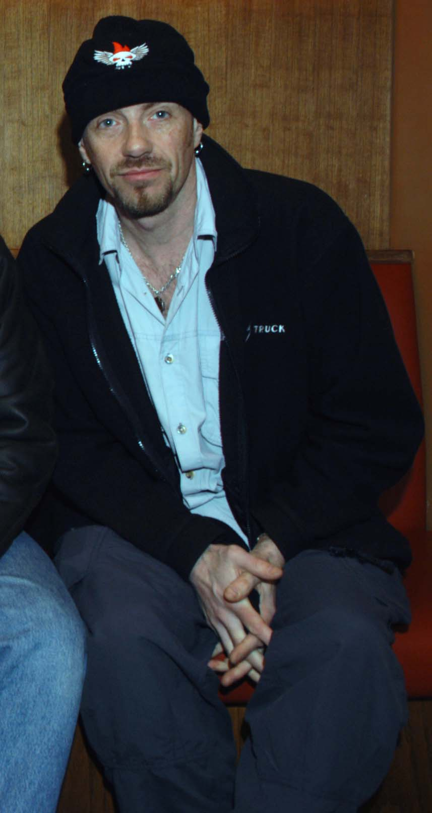 Photo of Ali McMordie, a bass guitarist, a founding member of, Stiff Little Fingers. He was with them from their inception in 1977 until they broke up in 1983, and joined them on the first few years worth of reunion tours five years later.